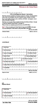 Arrival-Departure Record form